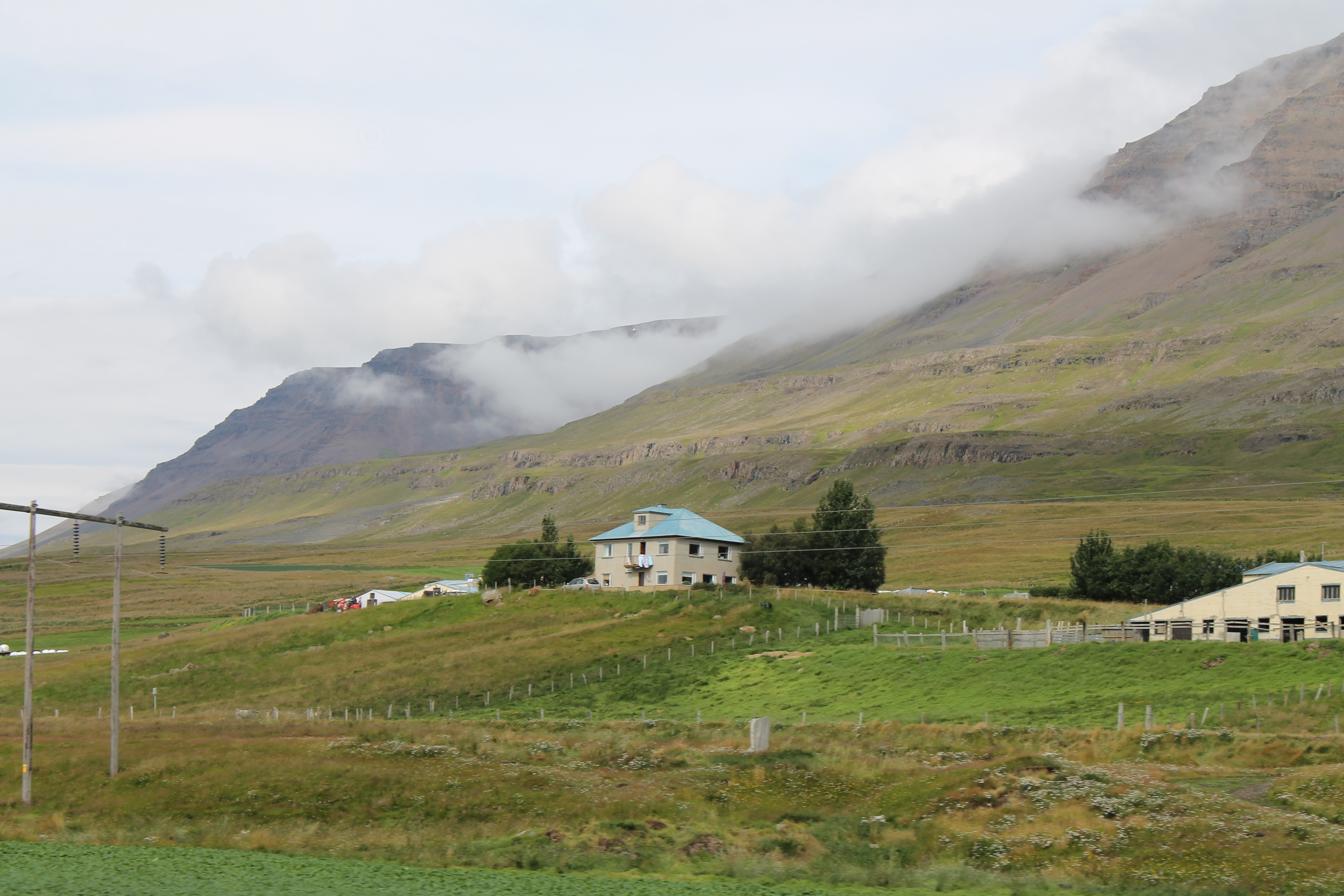 Uppsalir farm in Skagafjörður, Northern Iceland.